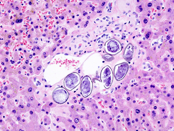 Histopathological image of old state of schistosomiasis incidentally found at autopsy